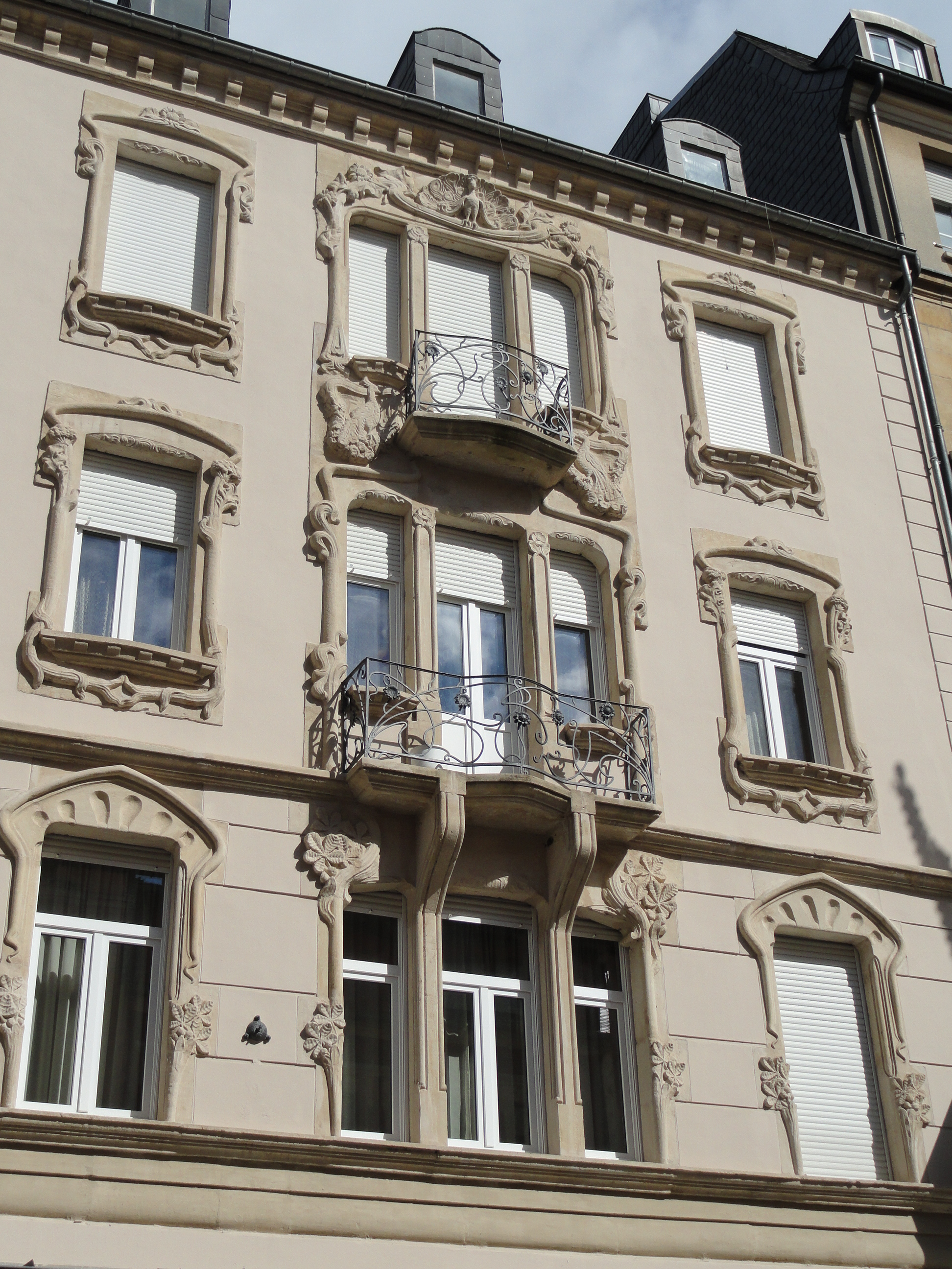 4 Rue de l'Alzette in Esch-sur-Alzette (Grand Duché du Luxembourg)Styl: Art Nouveau of Nancy